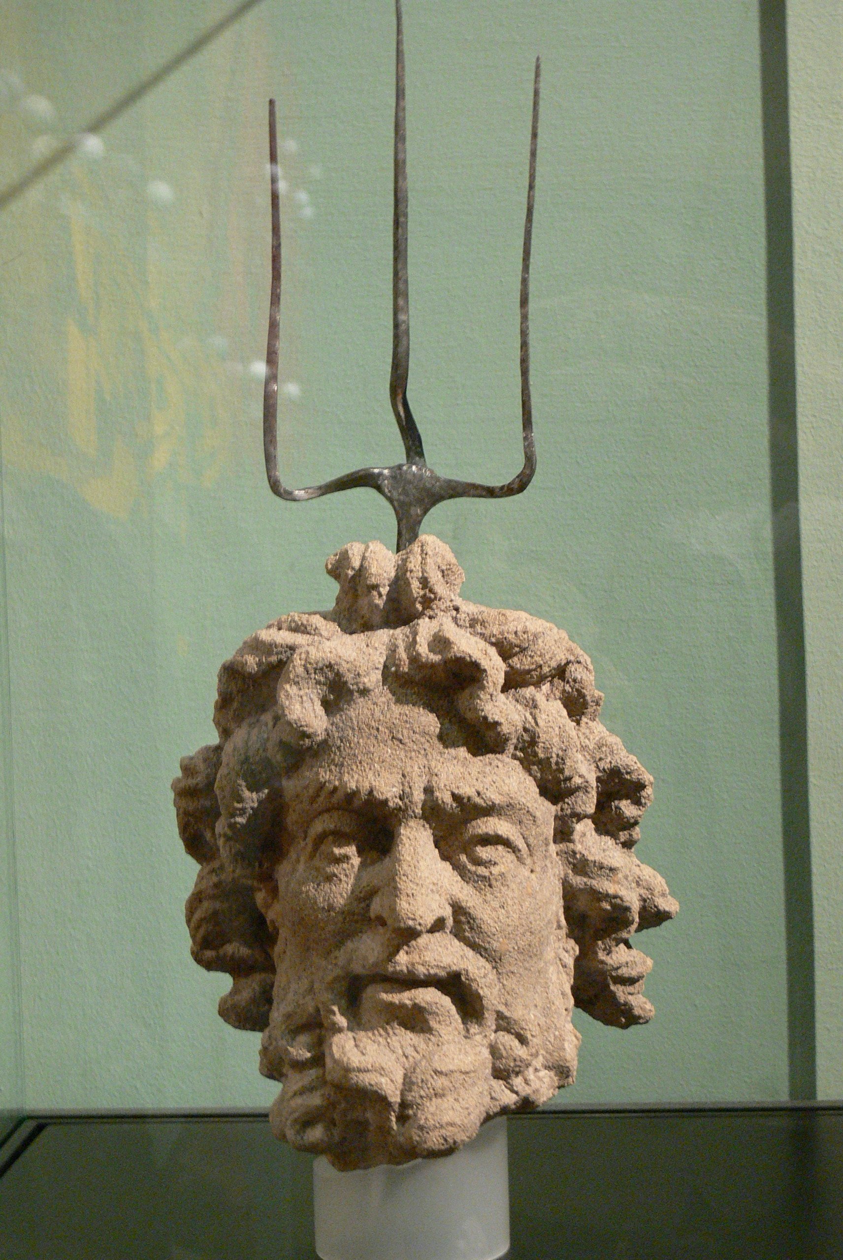 Museum Carnuntinum ( Lower Austria ). Head ( 3rd century ) of Iupiter with attribute, probably to fix feathers or plants for decoration.